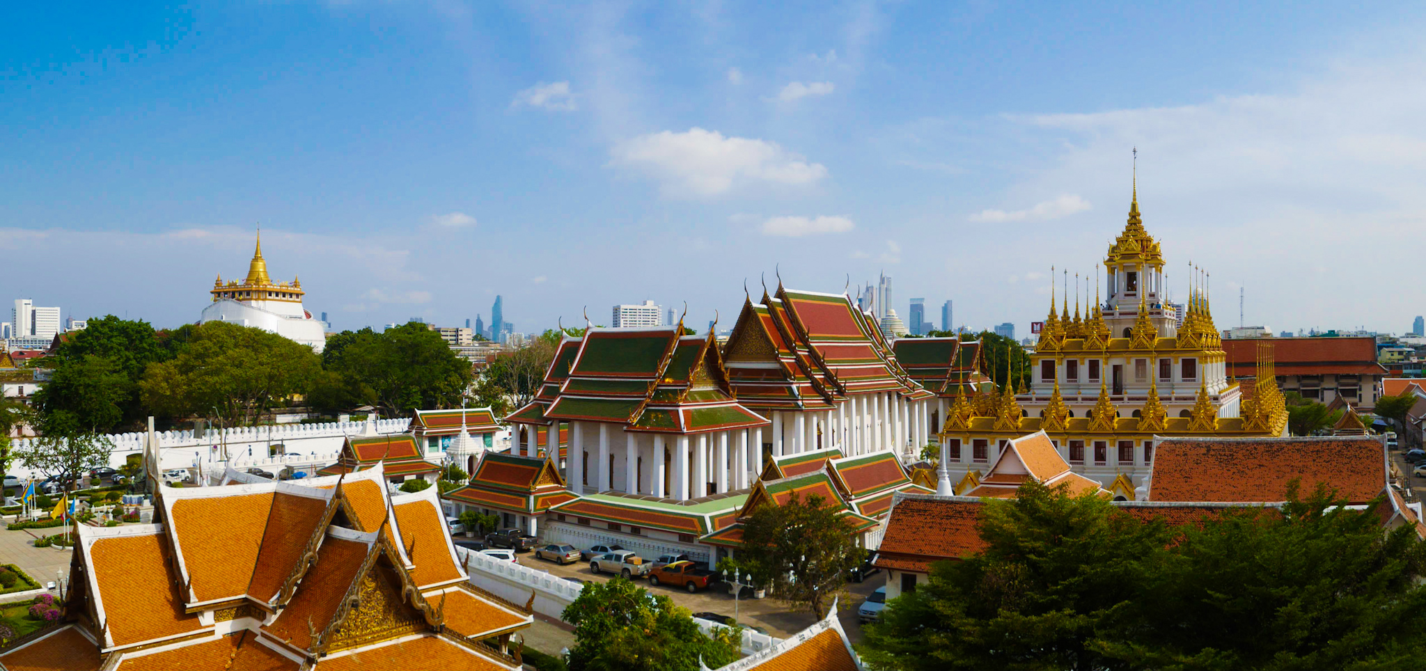 Wat Ratchanatdaram Depicted place: Wat Ratchanatdaram